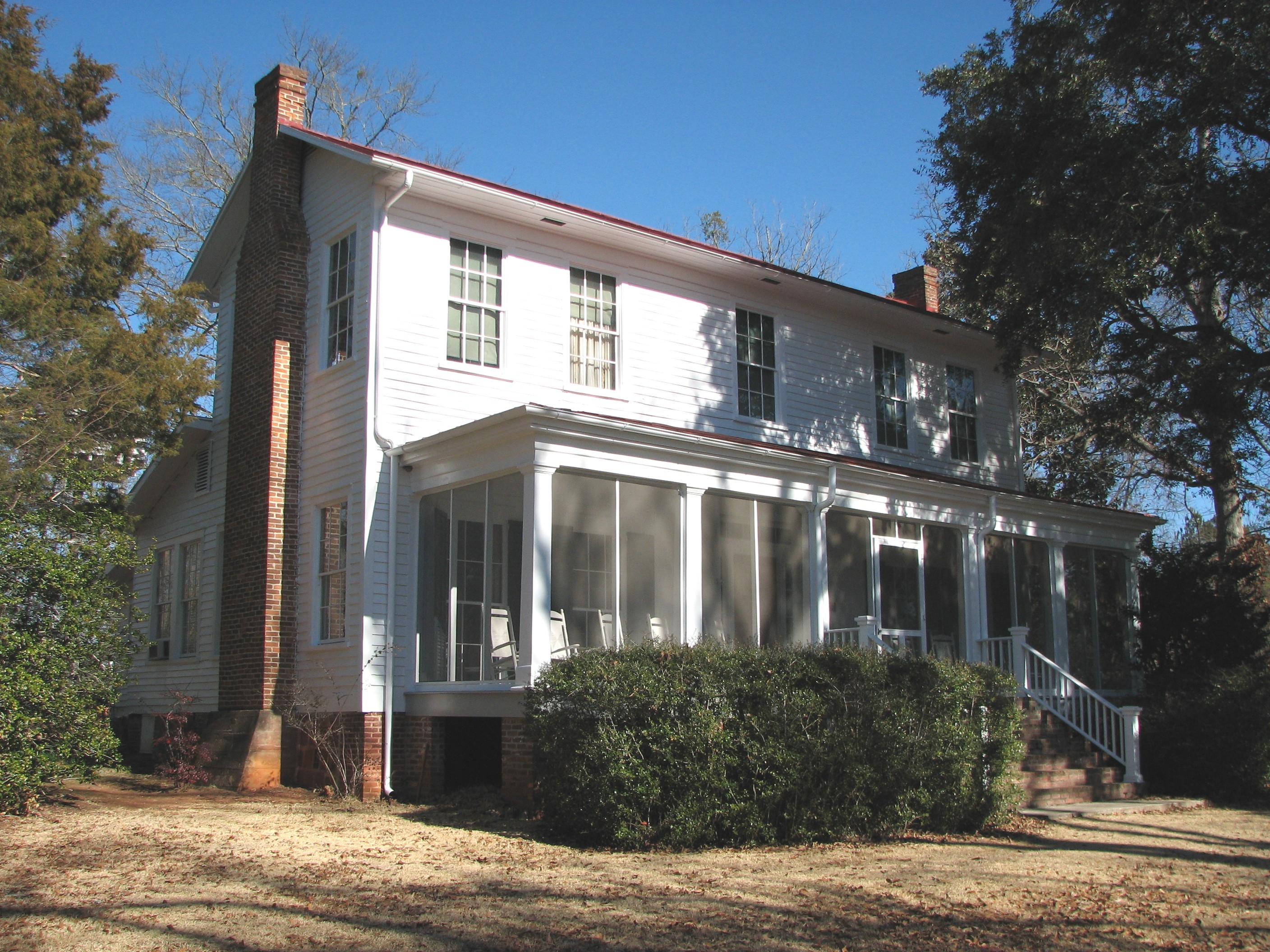 Andalusia , former home of Flannery O'Connor.